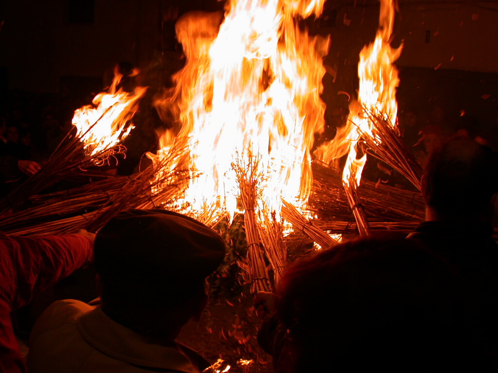 Jachas